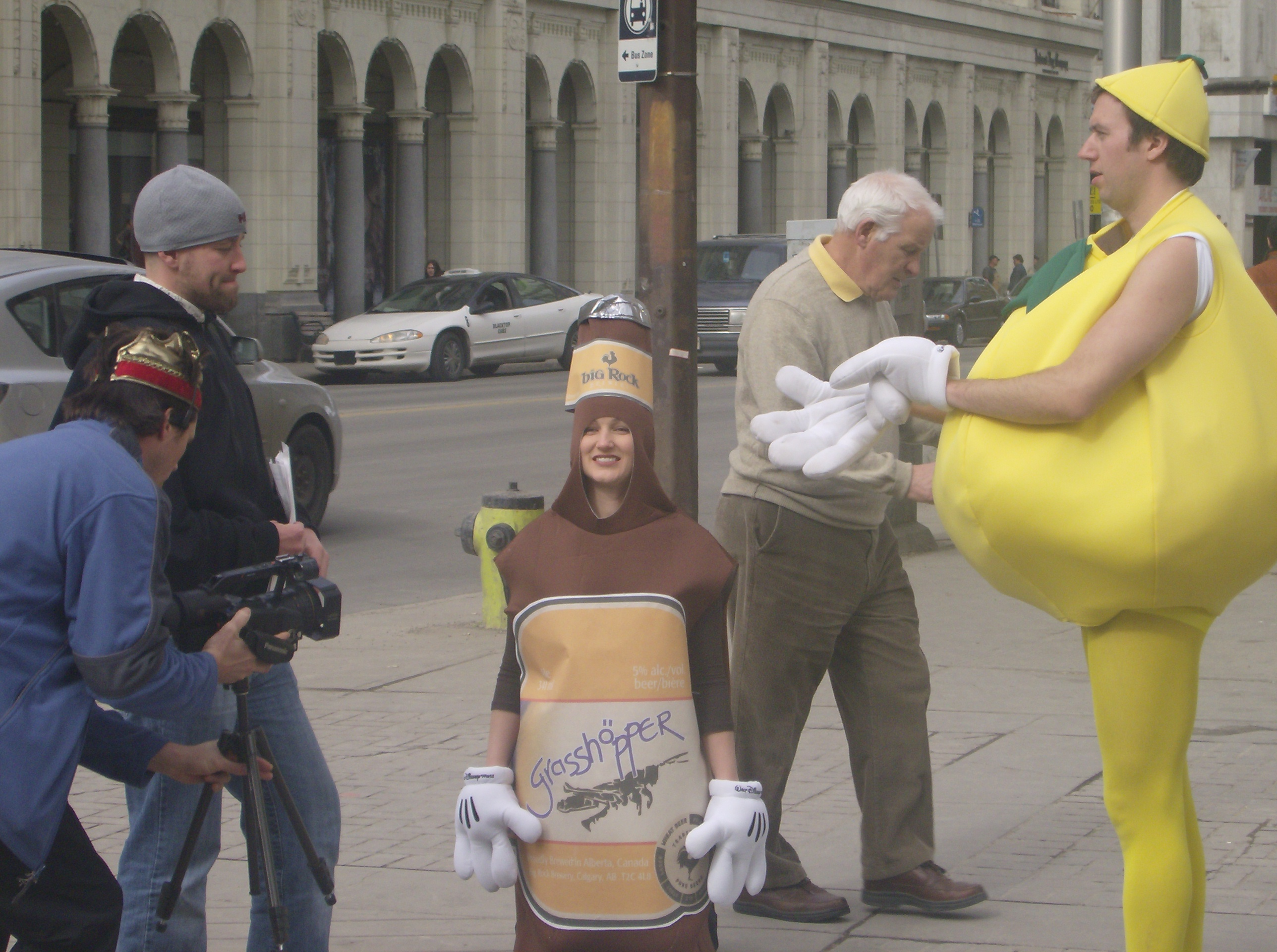 A promotion for Big Rock Grasshopper, which I happened to be passing by. This is in Calgary on Stephen Avenue Mall (8 Avenue S), on the East side of 1 Street SW. In the building in the background is the Bay. The guy in yellow, to the right is a lemon. The lady in the centre, is obviously a beer bottle.